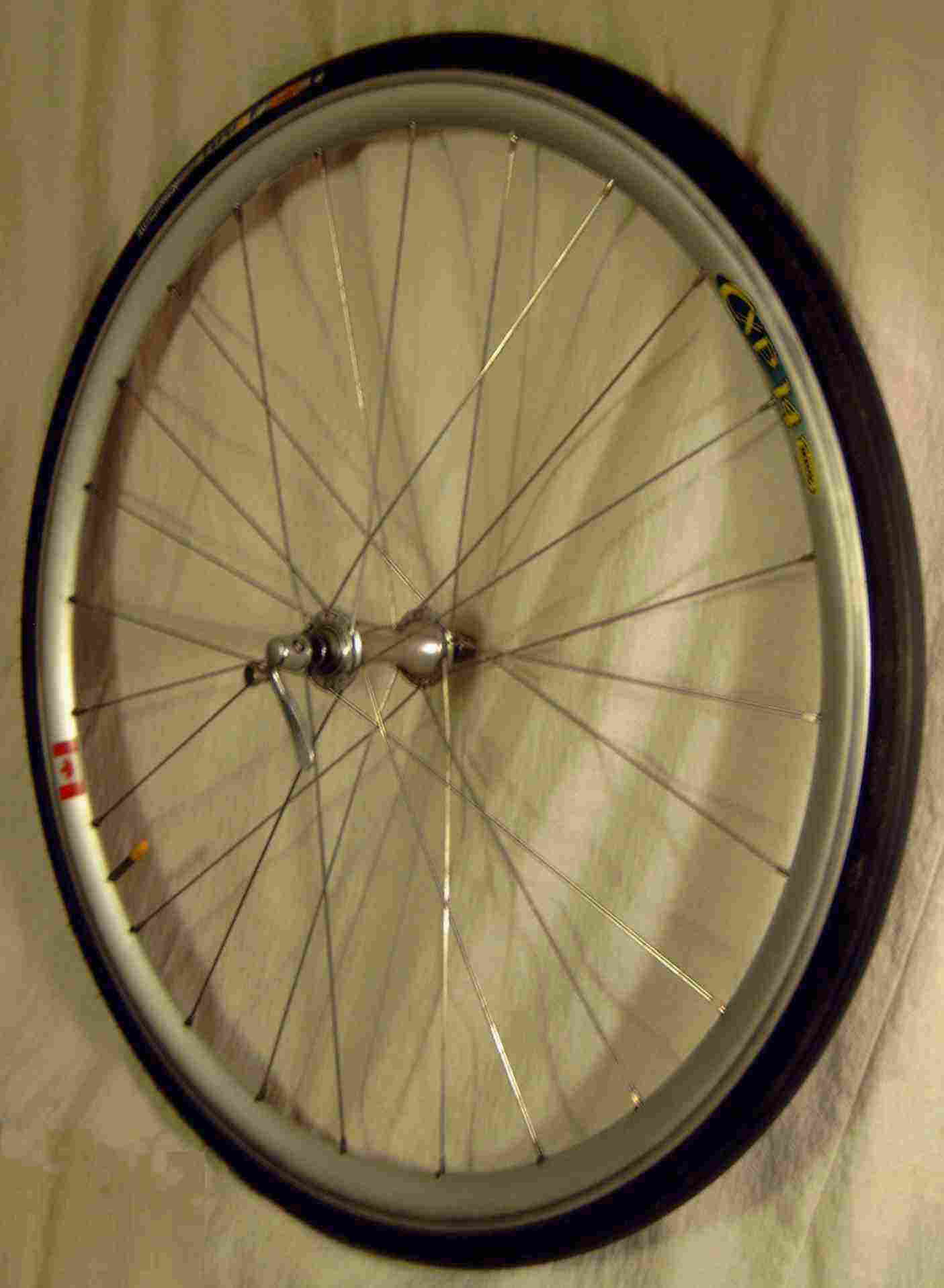 a Mavic CXP 14 700c Road bicycle wheel.